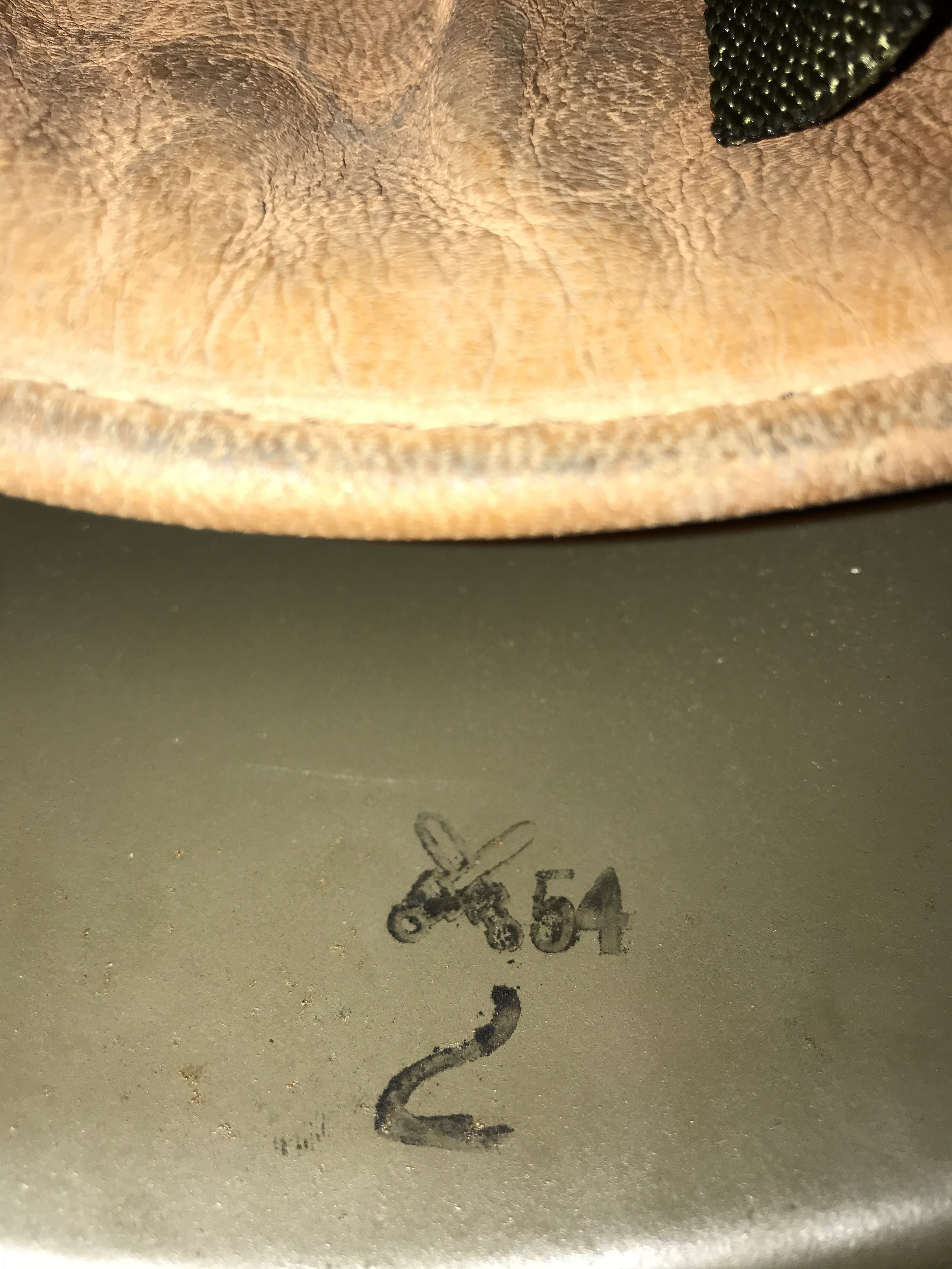 The date a Vz. 53/80 helmet was manufactured.